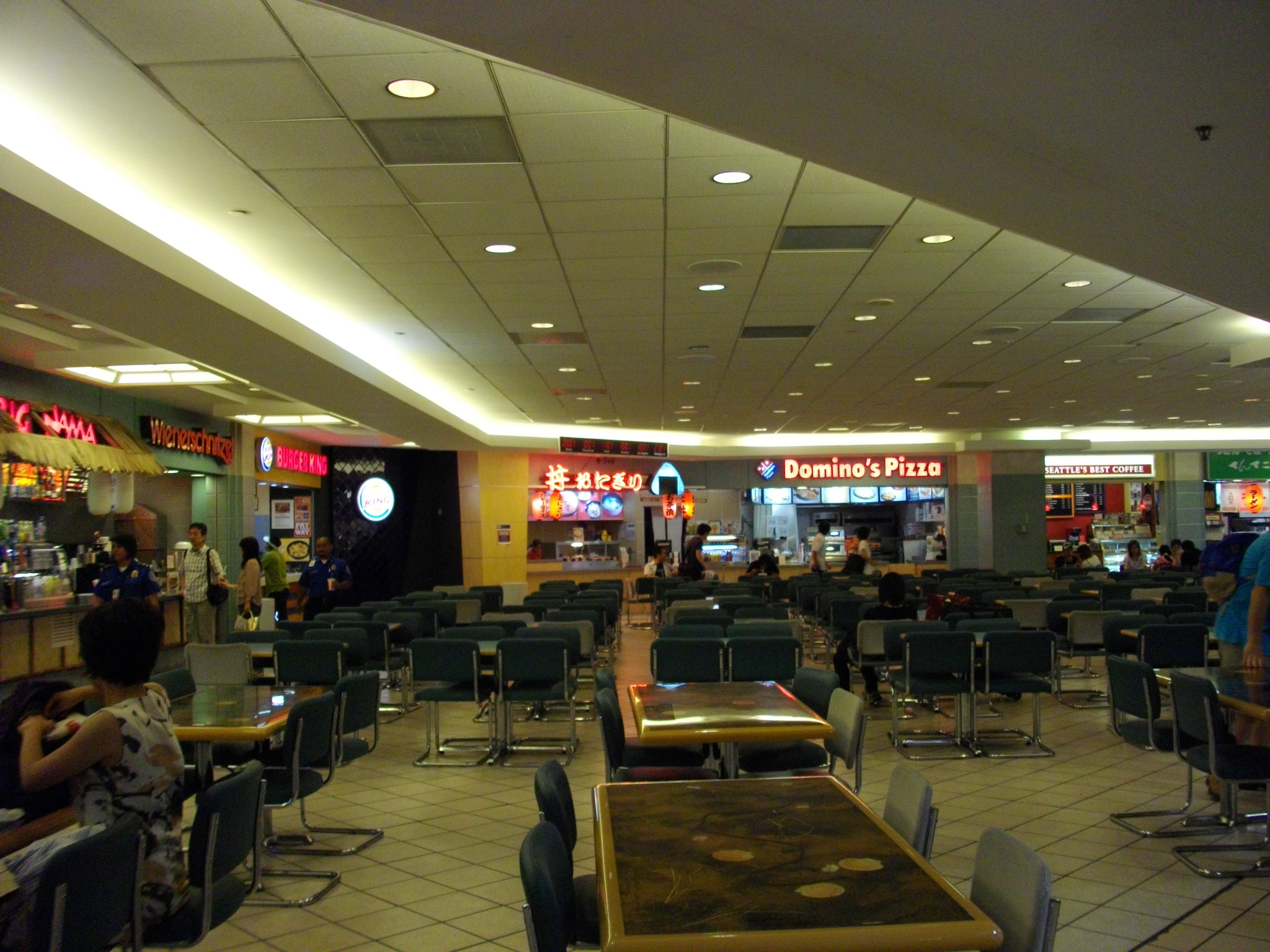 Guam International Airport Food Court